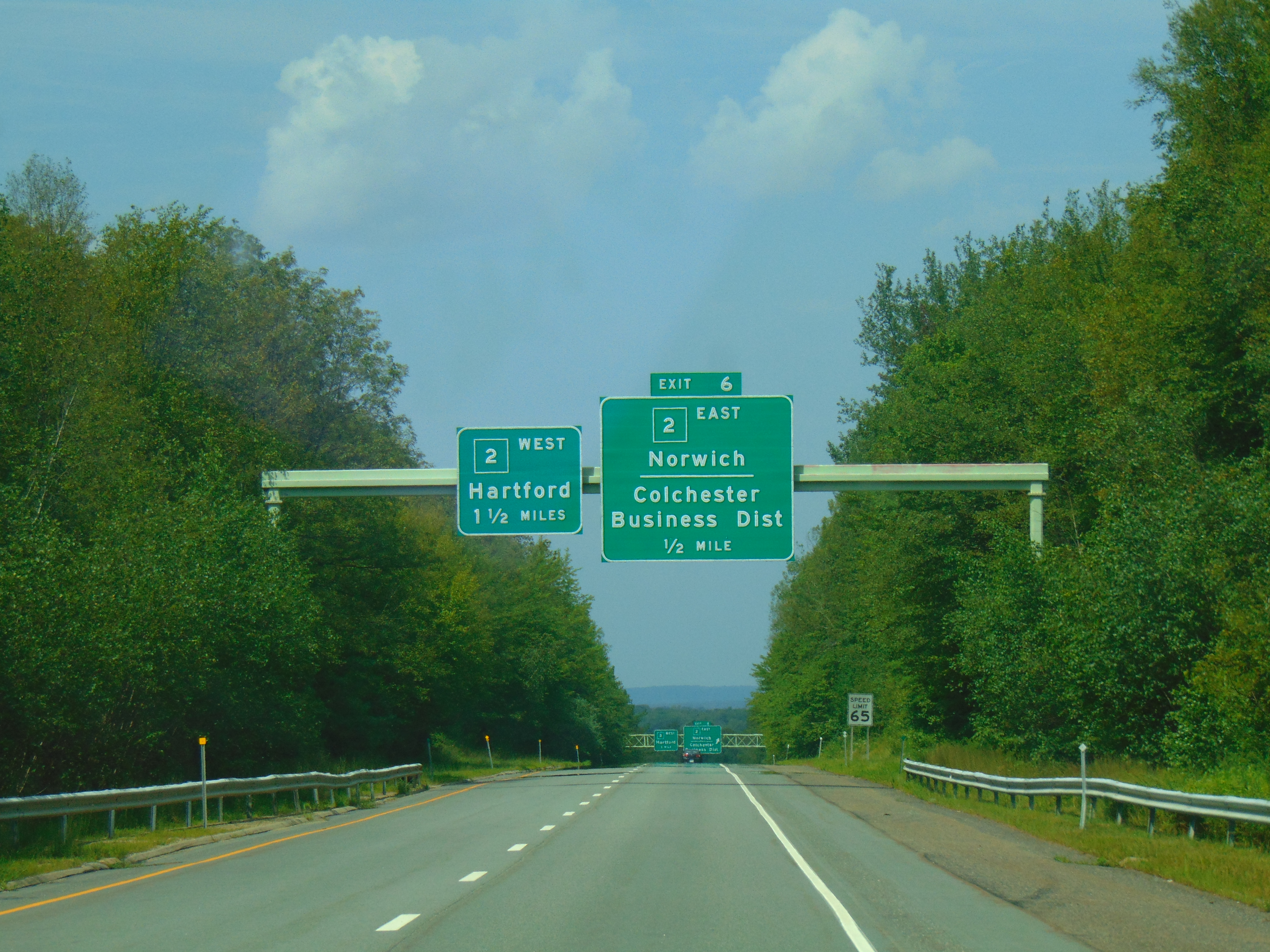 CT 11 coming up to CT 2 in Colchester, Connecticut.